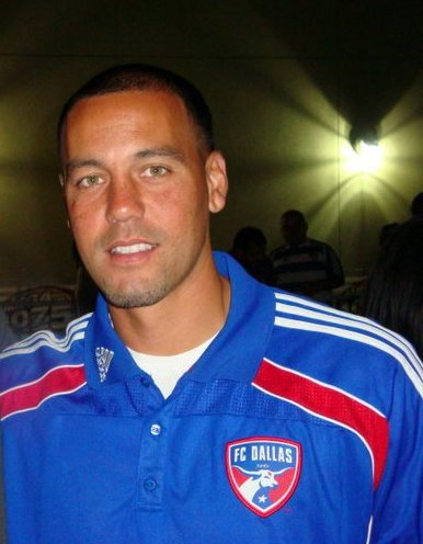 Daniel Hernandez FCD